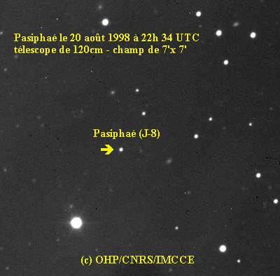 Pasiphaë (Jupiter VIII) photographed by the OHP (Observatoire de Haute-Provence) on 20 August 1998 at 22h34 UTC. Jupiter is off frame.